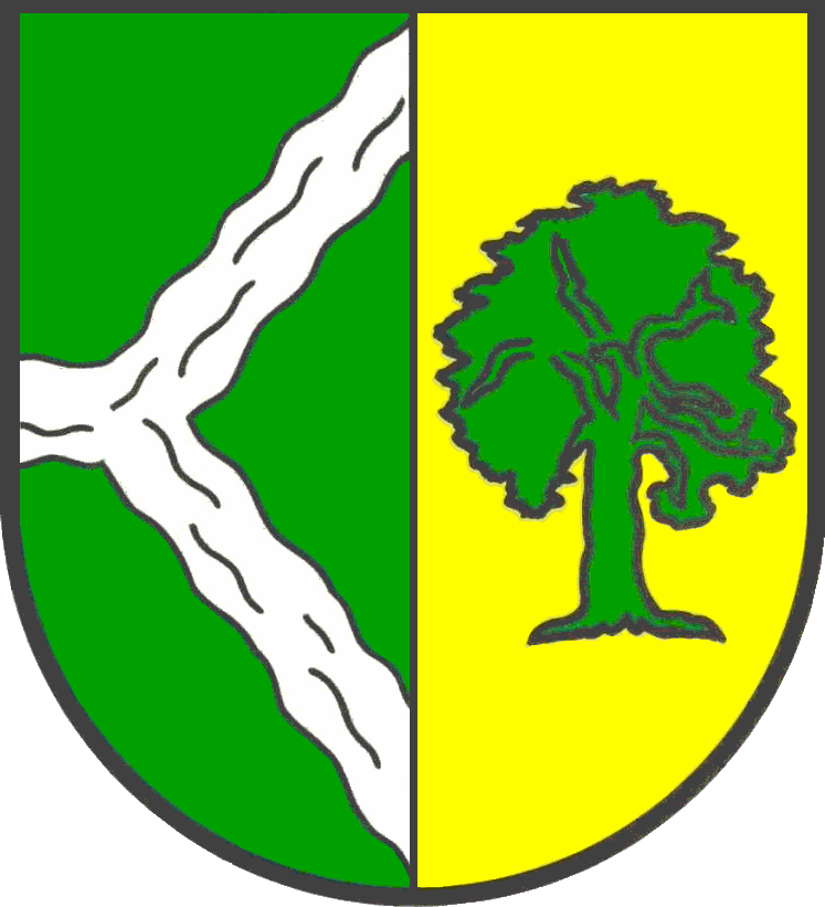 Coat of arms of the municipality Bohmstedt in Schleswig-Holstein, Germany.